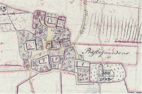 Detail of a map from 1808 showing the village of Gadstrup, Roskilde Municipality, Denmark